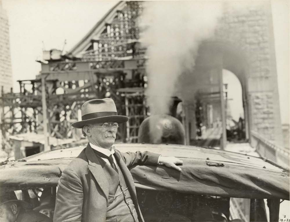 First train across Sydney Harbour Bridge carrying Dr.J.J.C. Bradfield.